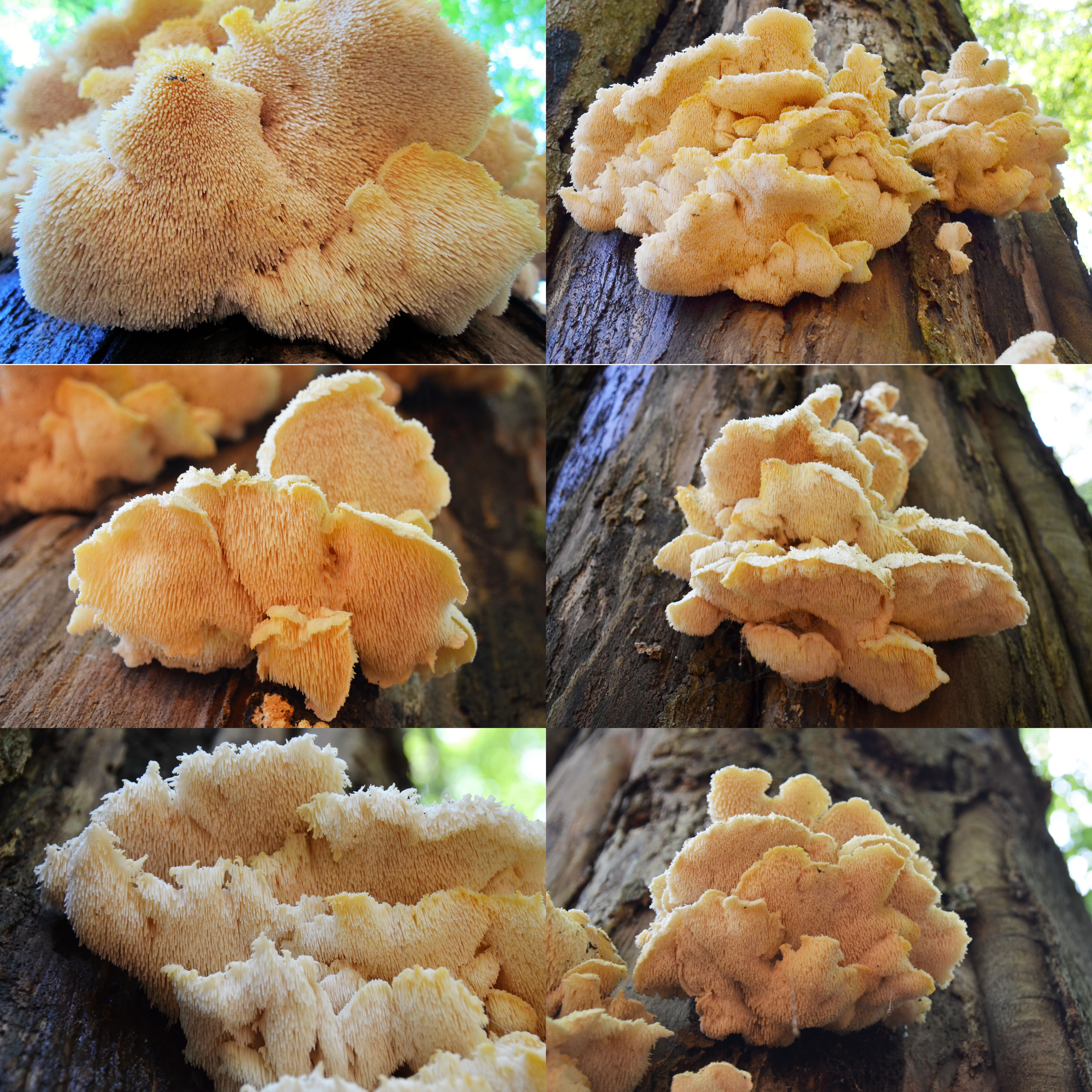 Details of Hericium cirrhatum Syn. Creolophus cirrhatus, GB= Tiered Tooth Fungus, D= Dorniger stachelbart Syn. Dorniger Stachelseitling, F= Créolophe ondulé, NL= Gelobde pruikzwam) at the preceeding photo with lots of long teeth and majestic shell-shaped and bracket-like, usually tiered